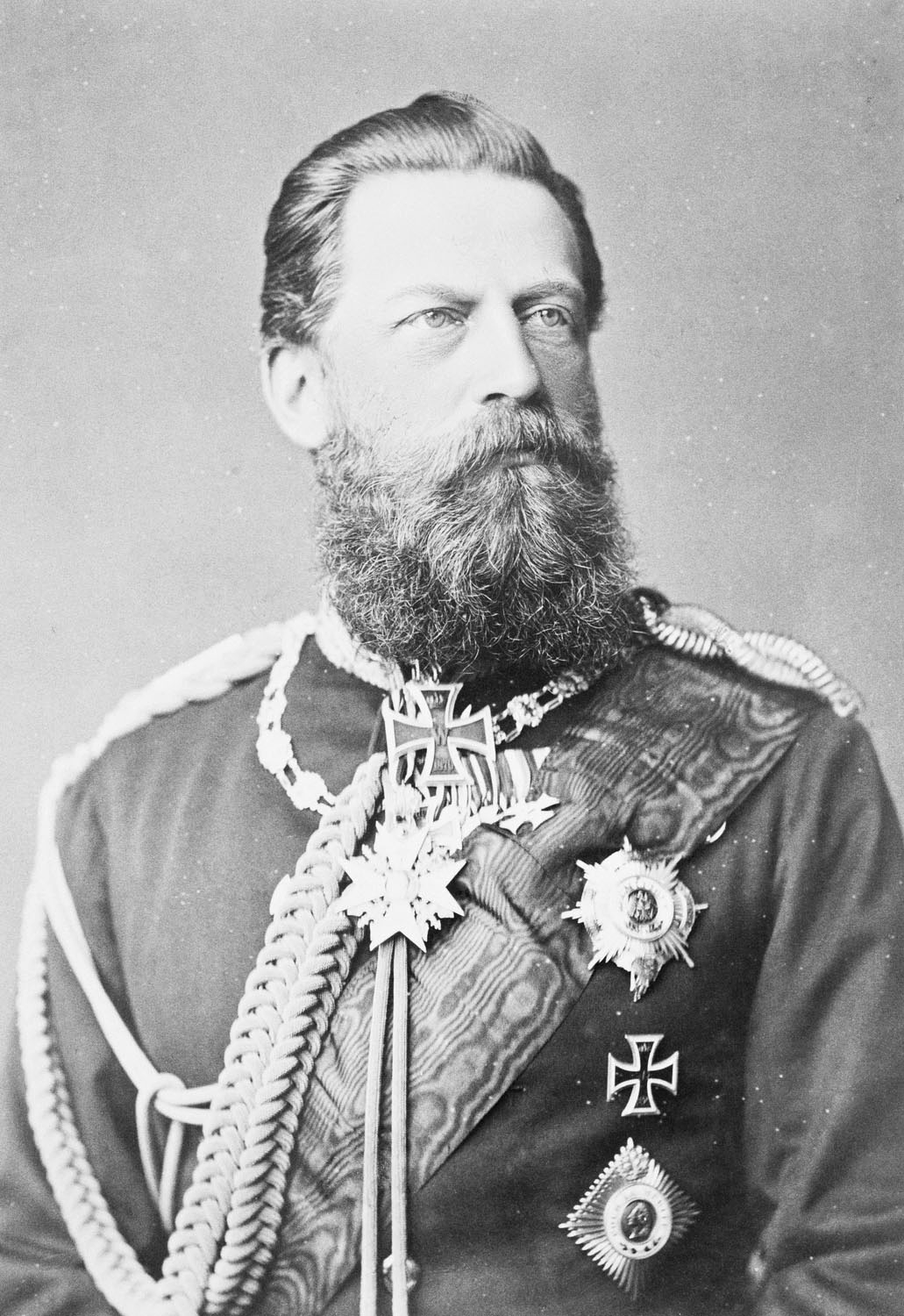 Photograph of Crown Prince Frederick William of Prussia: half length portrait, in military uniform with thick long beard and moustache